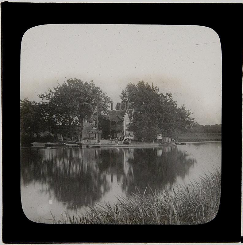 The Swan Inn, Rose Island, Sandford-on-Thames, Oxfordshire. The sign to the left advertises Morrell's Genuine Ales & Stout and has a picture of a white Swan above it. The Swan ceased to be a pub in 1929.